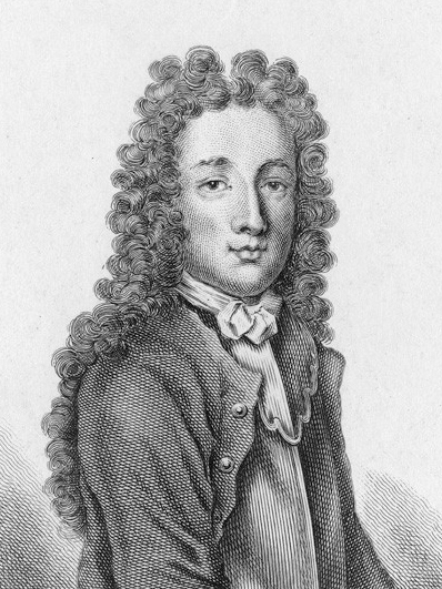 William Gordon, 6th Viscount of Kenmure